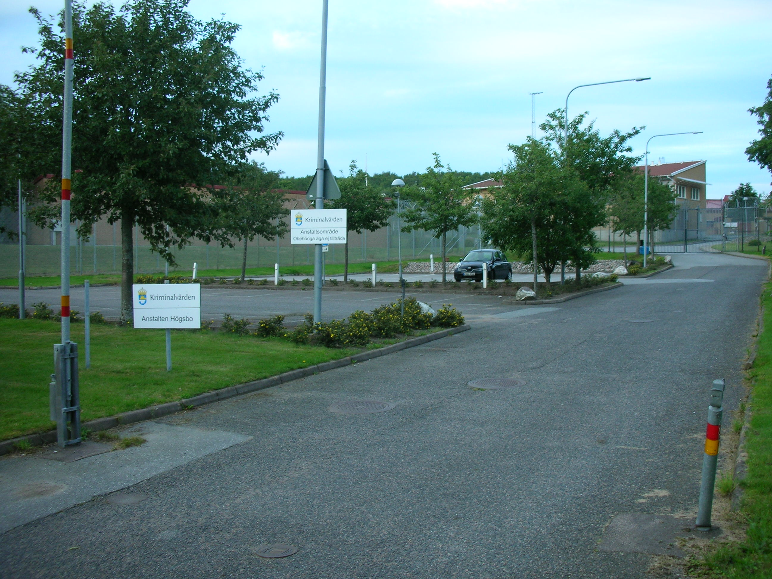 The prison Högsbo.